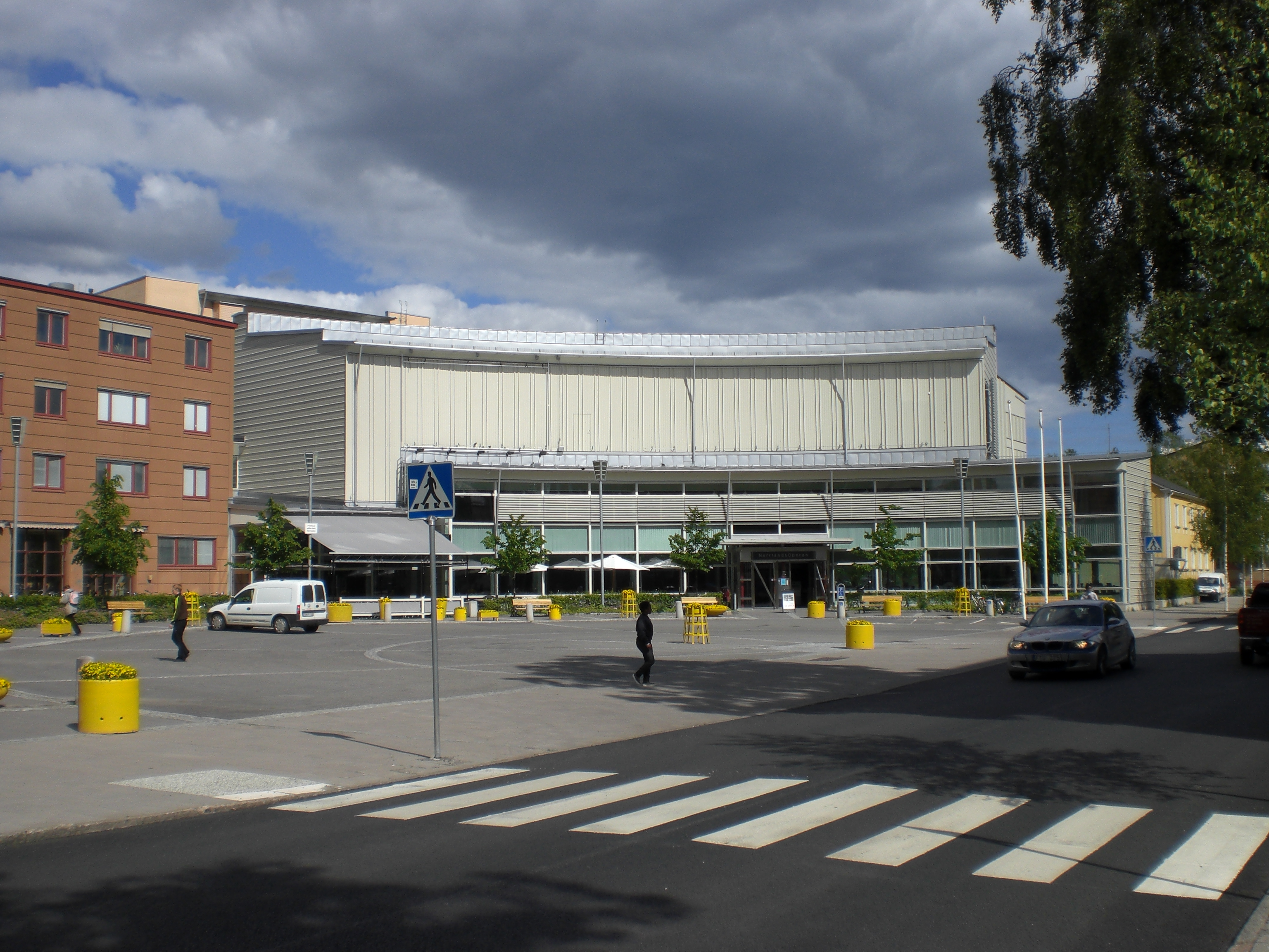 NorrlandsOperan, Umeå (The Norrland's Opera). This picture shows the new building.